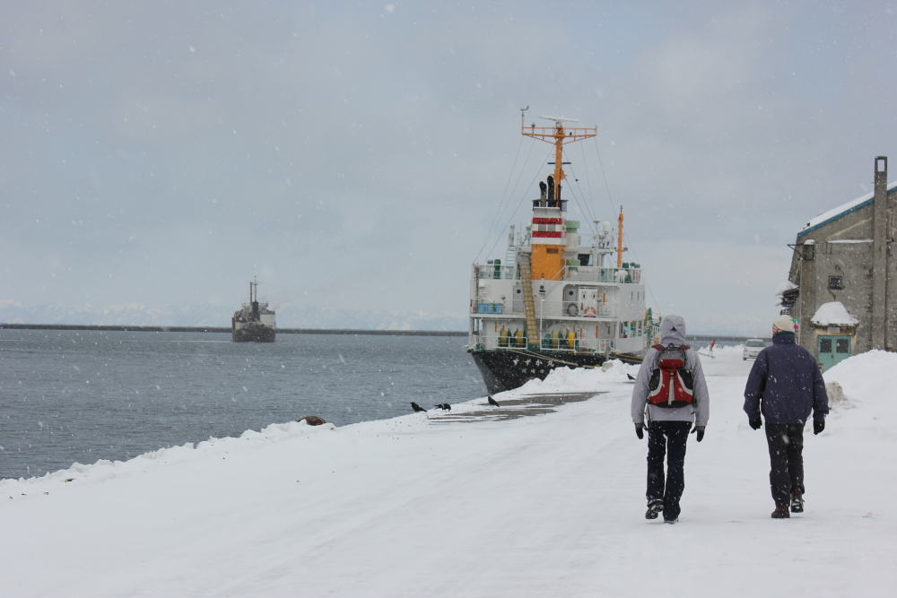 Port of Otaru in February 2012. Canon EOS 550D